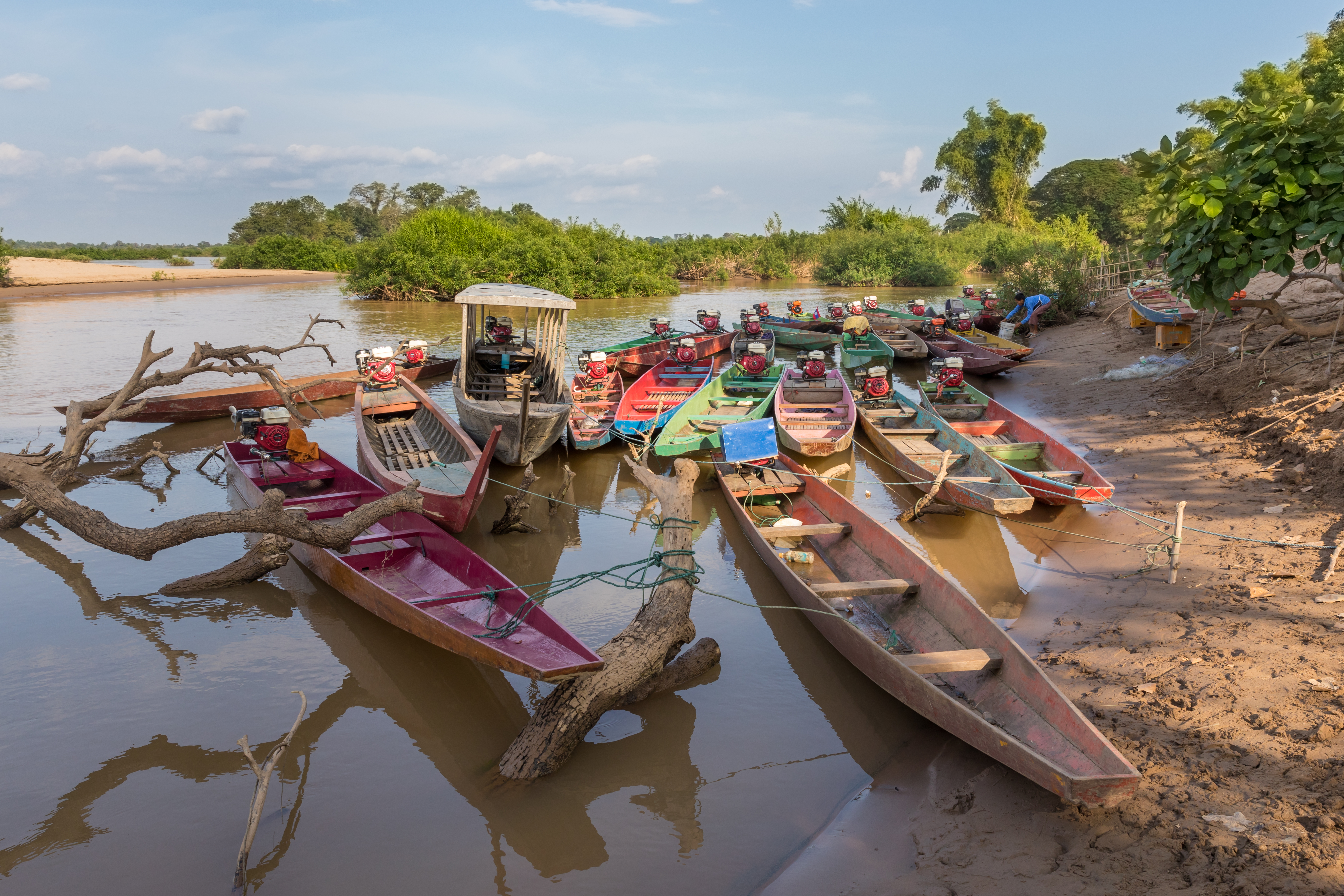 Group of pirogues at sunset on the river bank of Don Tati, Si Phan Don, Laos. A cockfight organized on the island was at the origin of this gathering.